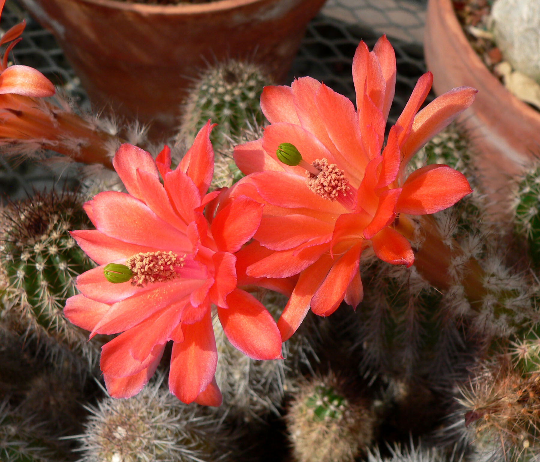 Echinocereus polyacanthus subsp. huitcholensis at the University of California Botanical Garden, Berkeley, California